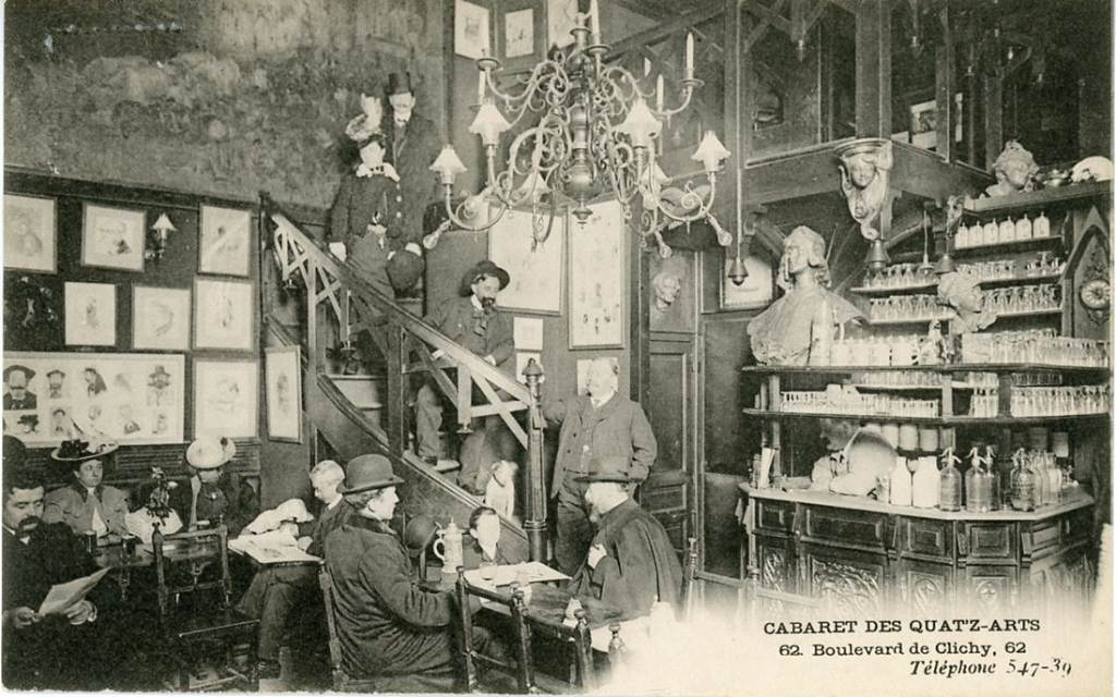 Cabaret Quat'z Arts interior view